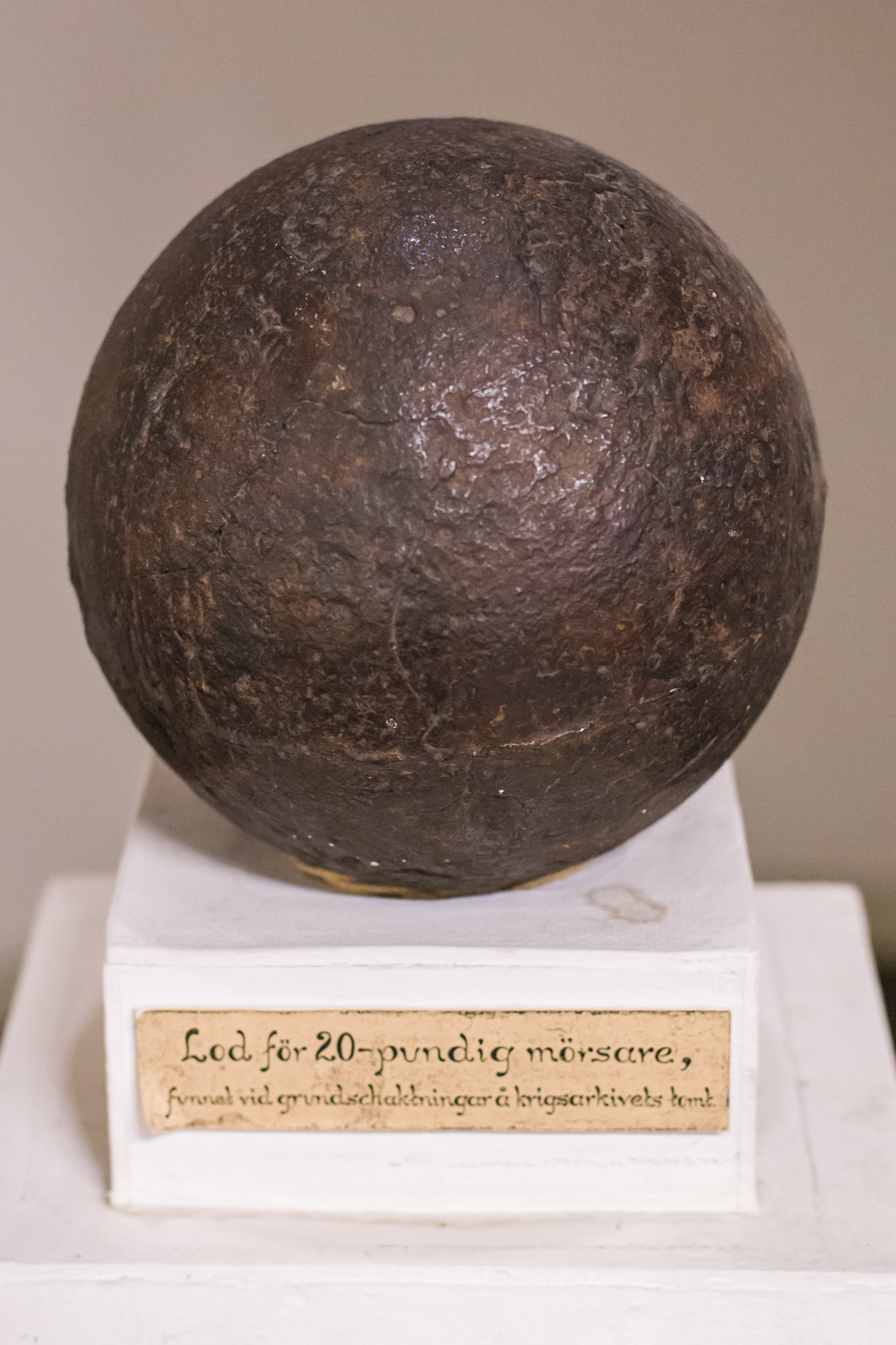 Cannonball of solid cast iron at Krigsarkivet (Military Archives of Sweden), Stockholm, Sweden.